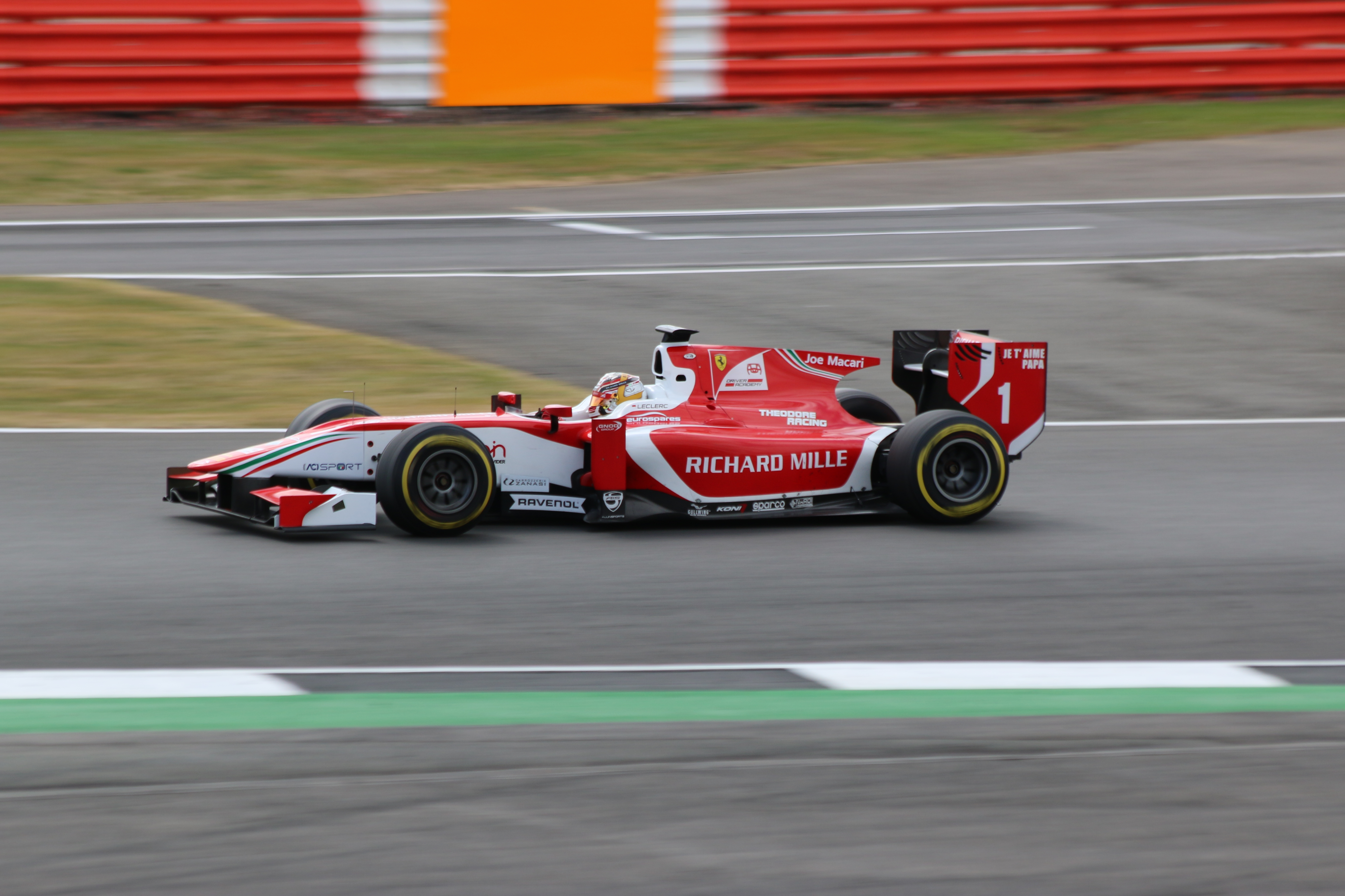 Charles Leclerc in the cockpit of its Prema Powerteam Formula 2 racing car in Monza, Italy